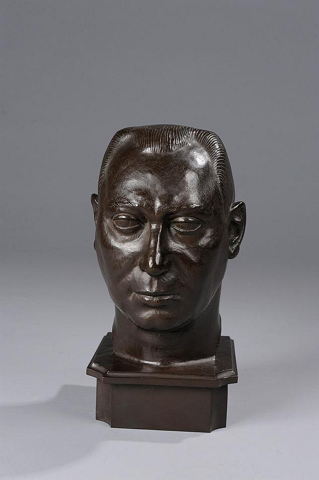 Bank director Olof Aschberg (1877-1960), brown patronized bronze bust, created by Carl Fagerberg (1878-1948) in 1925.